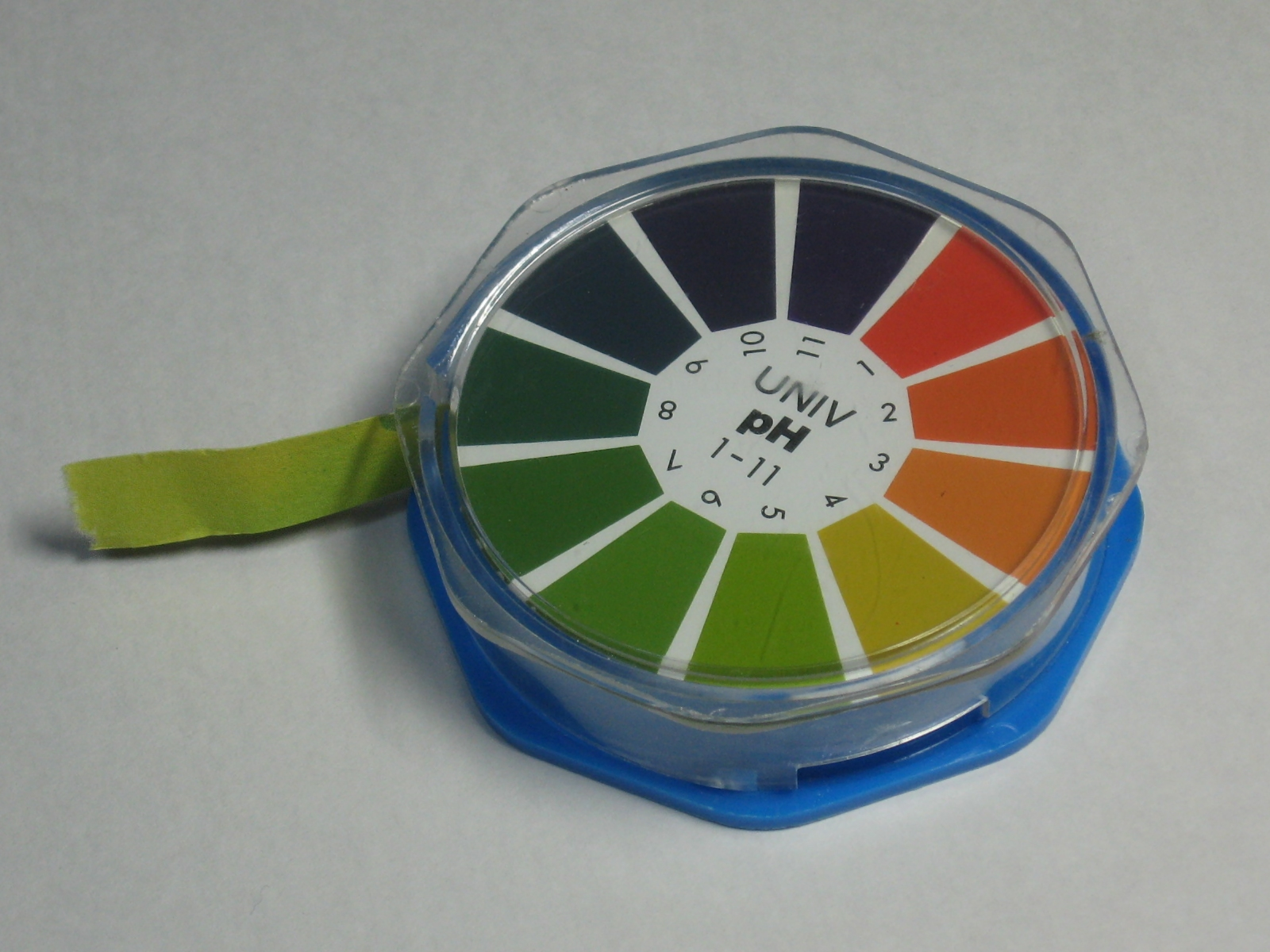 pH indicator paper reel